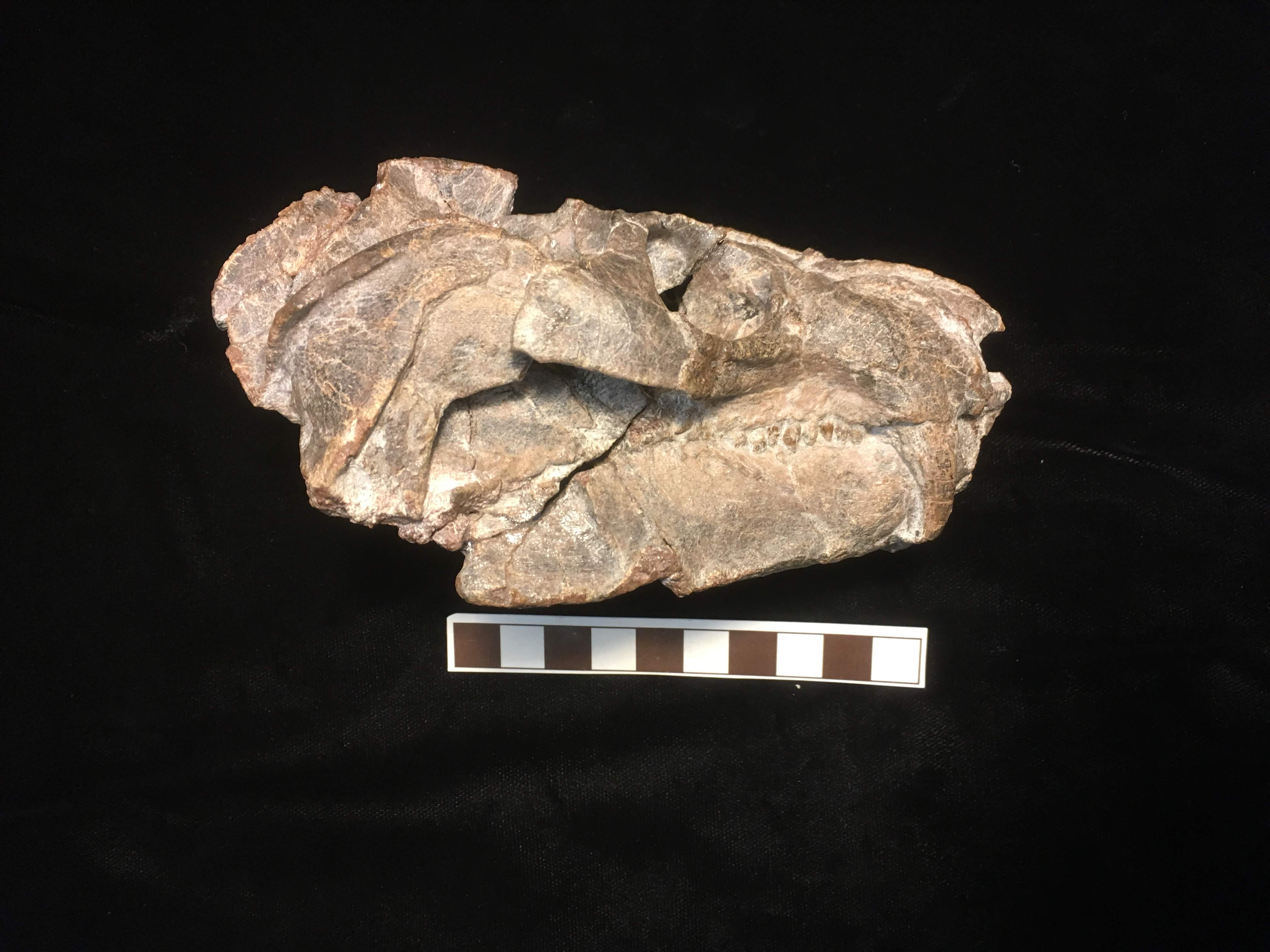 Lateral view of Aleodon skull from Tanzania with scale bar.